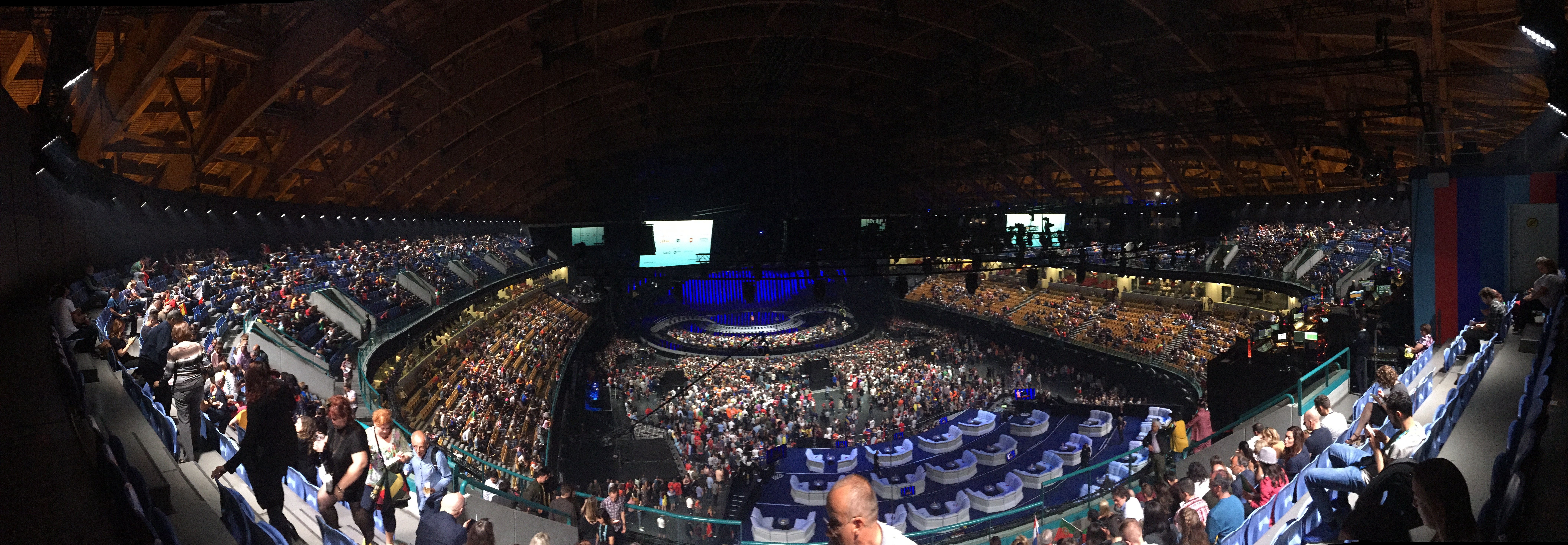 Audience inside Altice Arena at Eurovision 2018